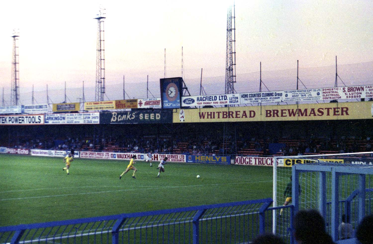 Luton: The Bobbers Stand at Kenilworth Road. The stand was demolished in 1986 to make way for executive boxes.